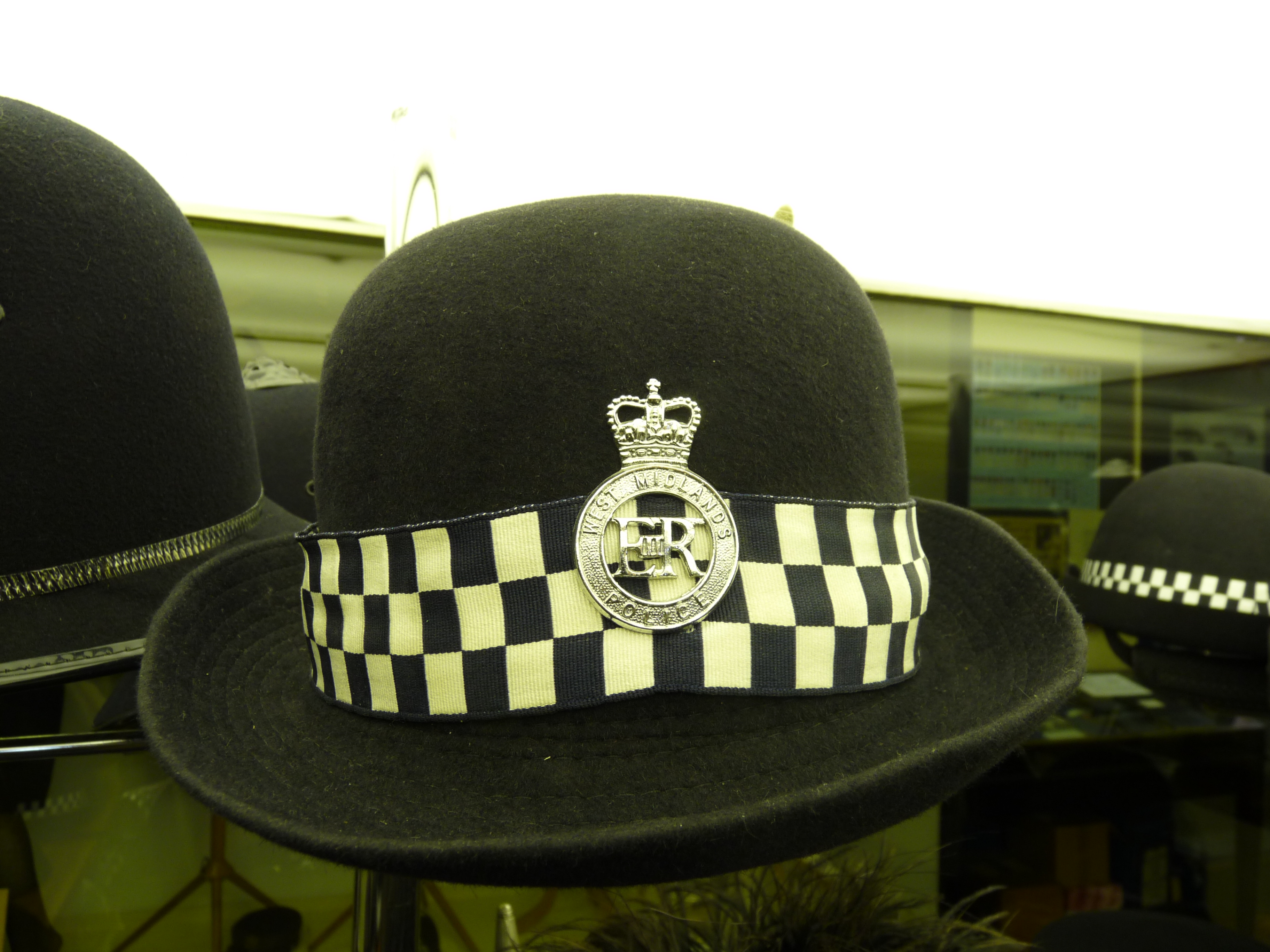 A hat of the West Midlands Police in the collection of the West Midlands Police Museum, Sparkhill Police Station, Birmingham.